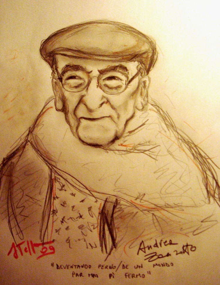 A portrait of one of the the greatest italian poets: Andrea Zanzotto; author: Paolo Steffan; 2009; pencil and sanguine on paper.